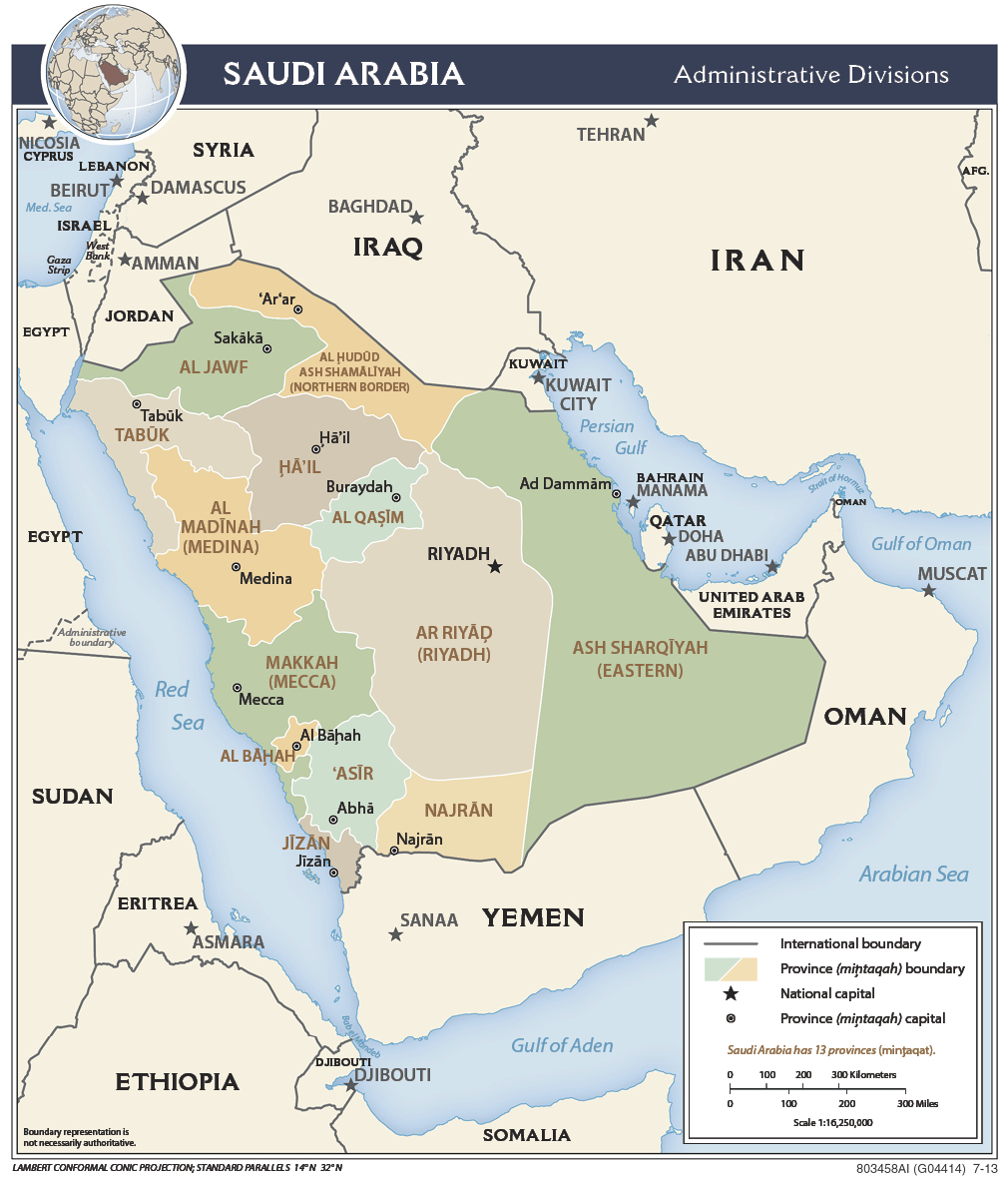 Arabia-Saudi political map